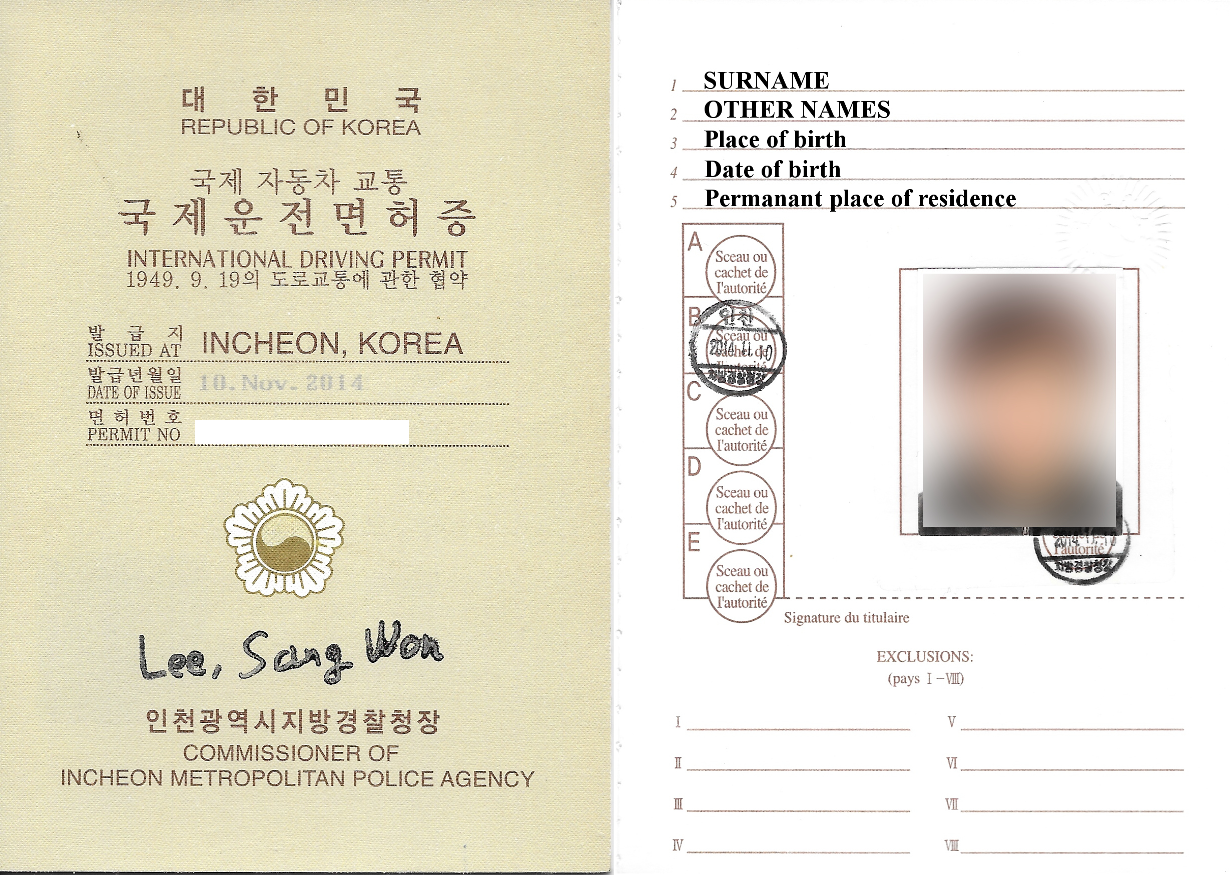 An International Driving Permit, issued at Incheon, Republic of Korea. This image shows the cover and last page of the document.